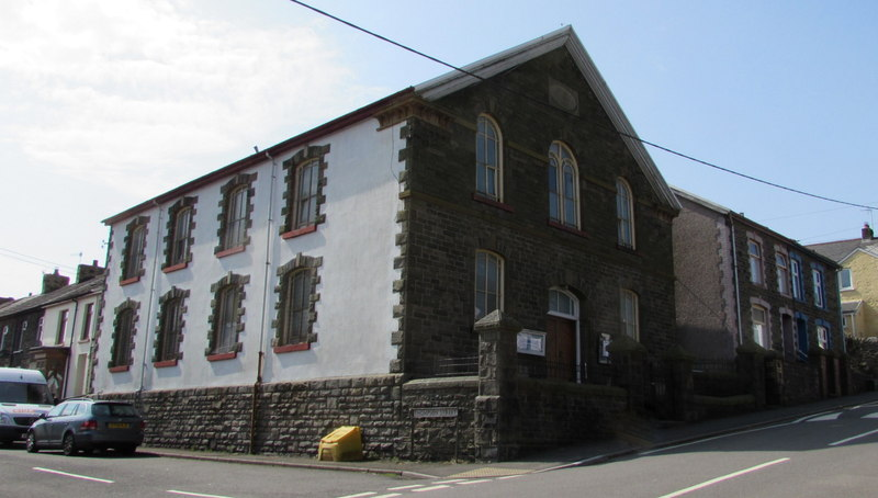 Noddfa Chapel, Ynysybwl. Welsh Baptist chapel on the corner of Thompson Street and High Street.